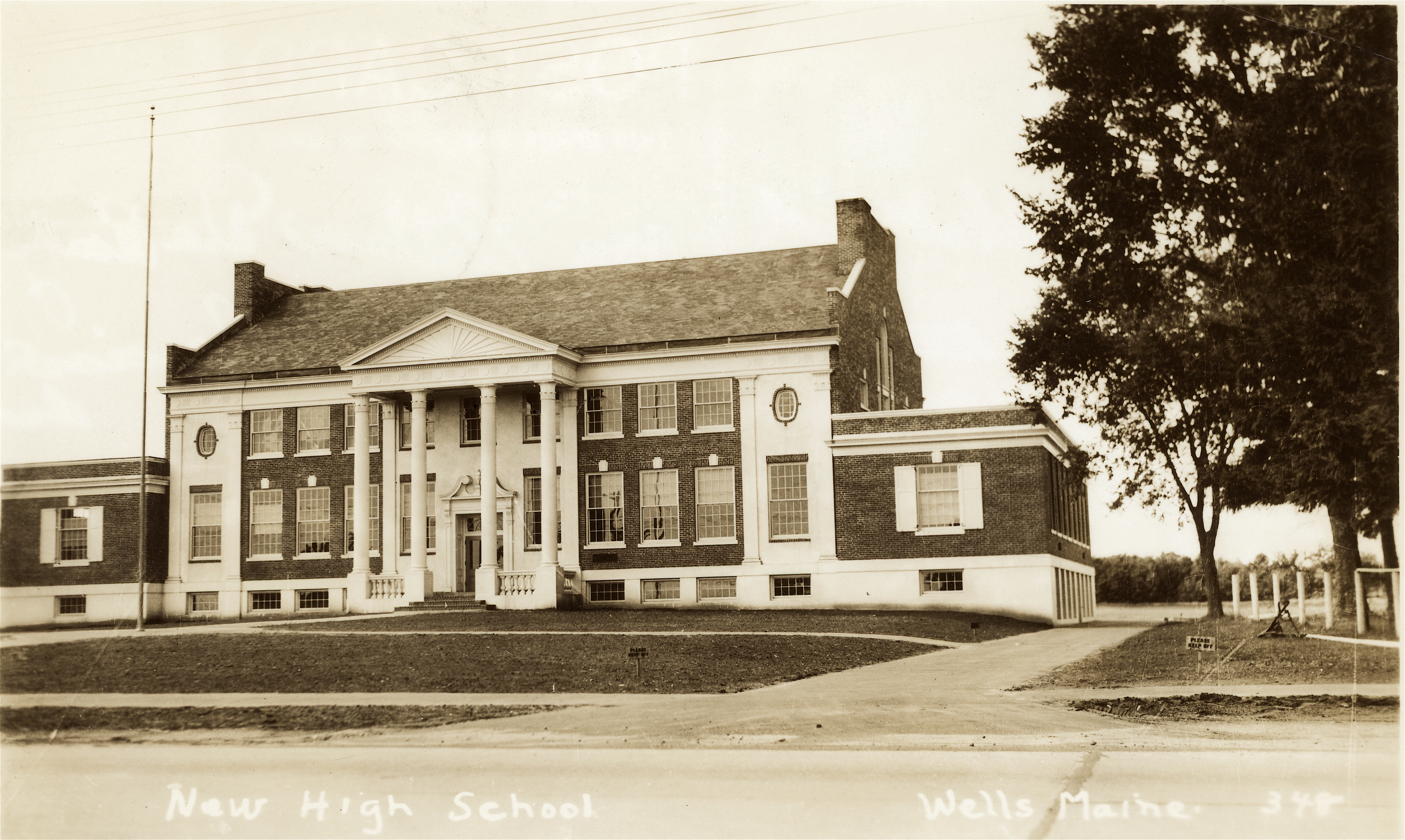 A 1937 "Real Photo Postcard" of the third Wells High School, built in 1937